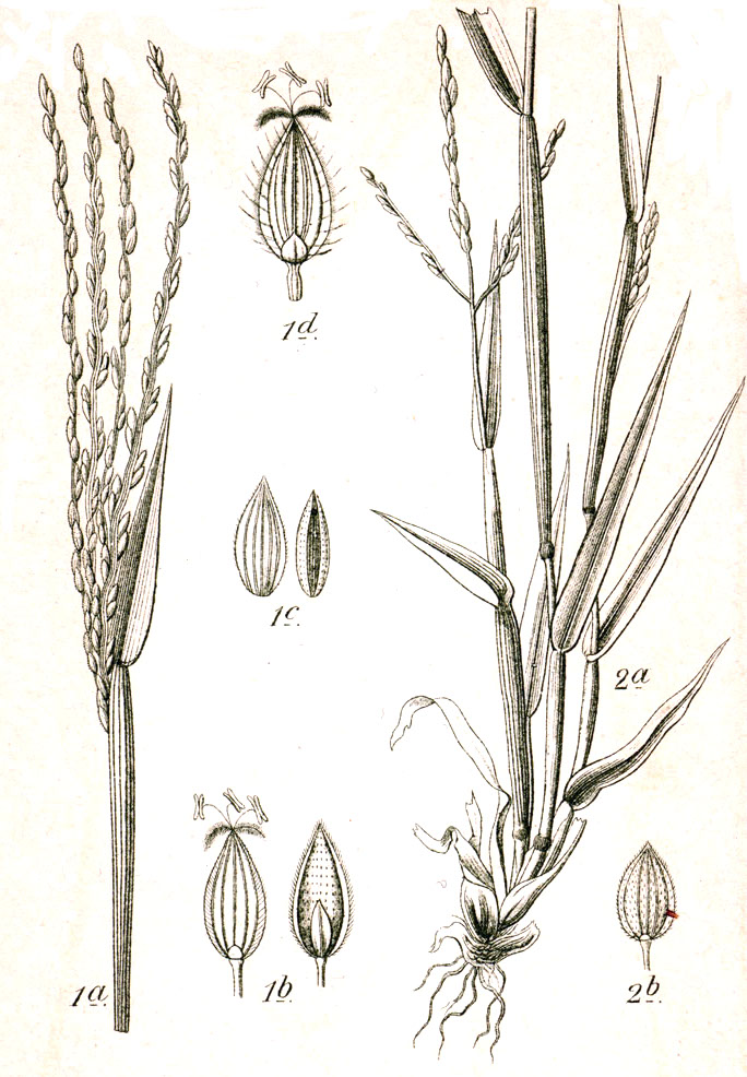 1. Digitaria sanguinalis (L.) Scop., syn. Panicum sanguinale L. 2. Cynodon dactylon (L.) Pers., syn. Panicum lineare L. Original Caption 1. Bluthirse, Panicum sanguinale L. 2. Fasenhirse, P. lineare Krock